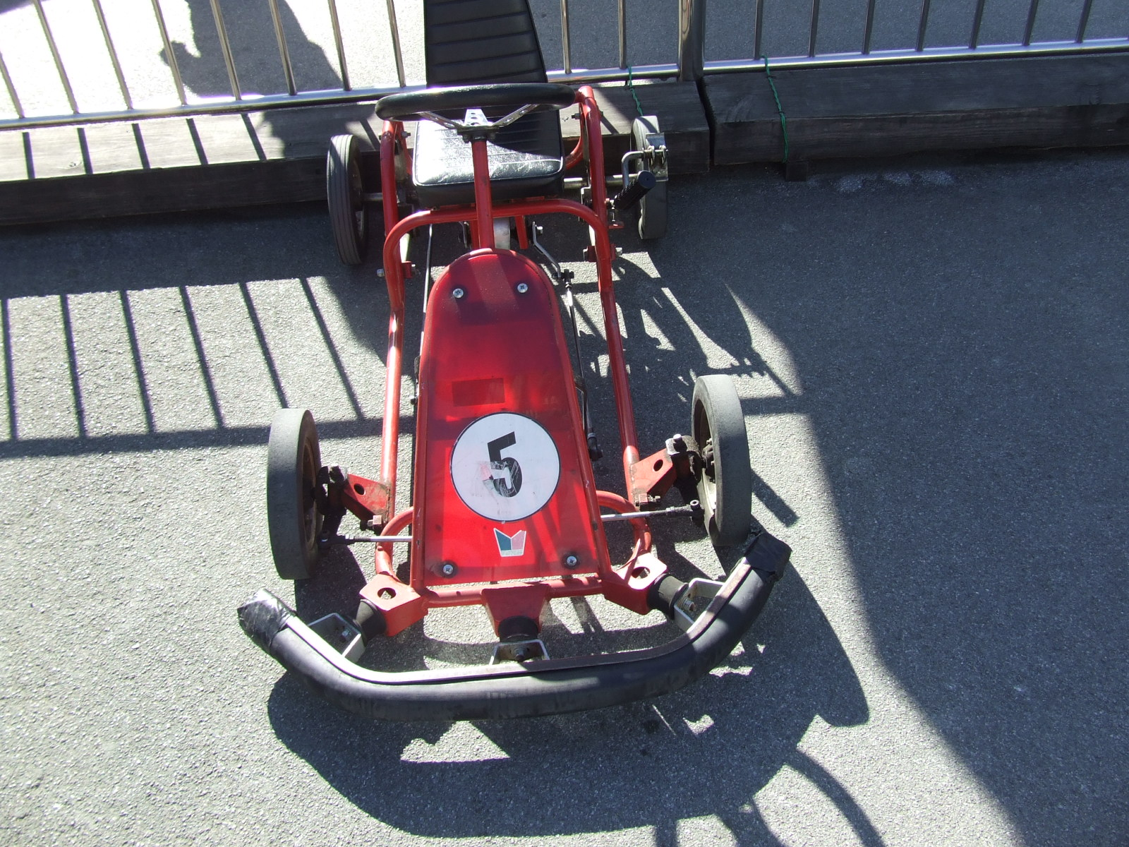 Go-Kart